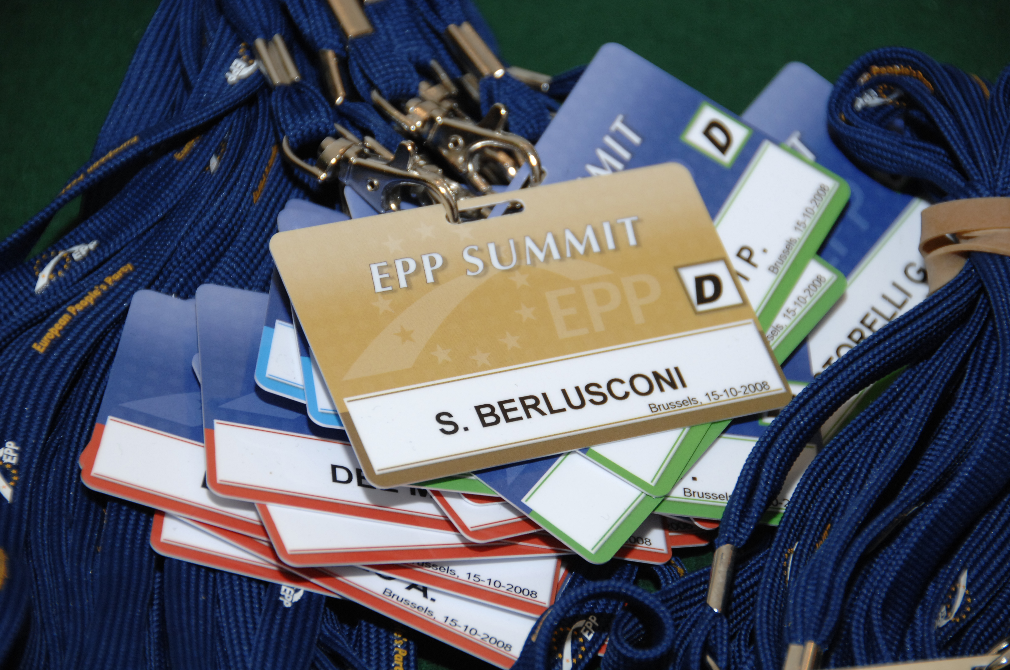 EPP Summit 15 October 2008